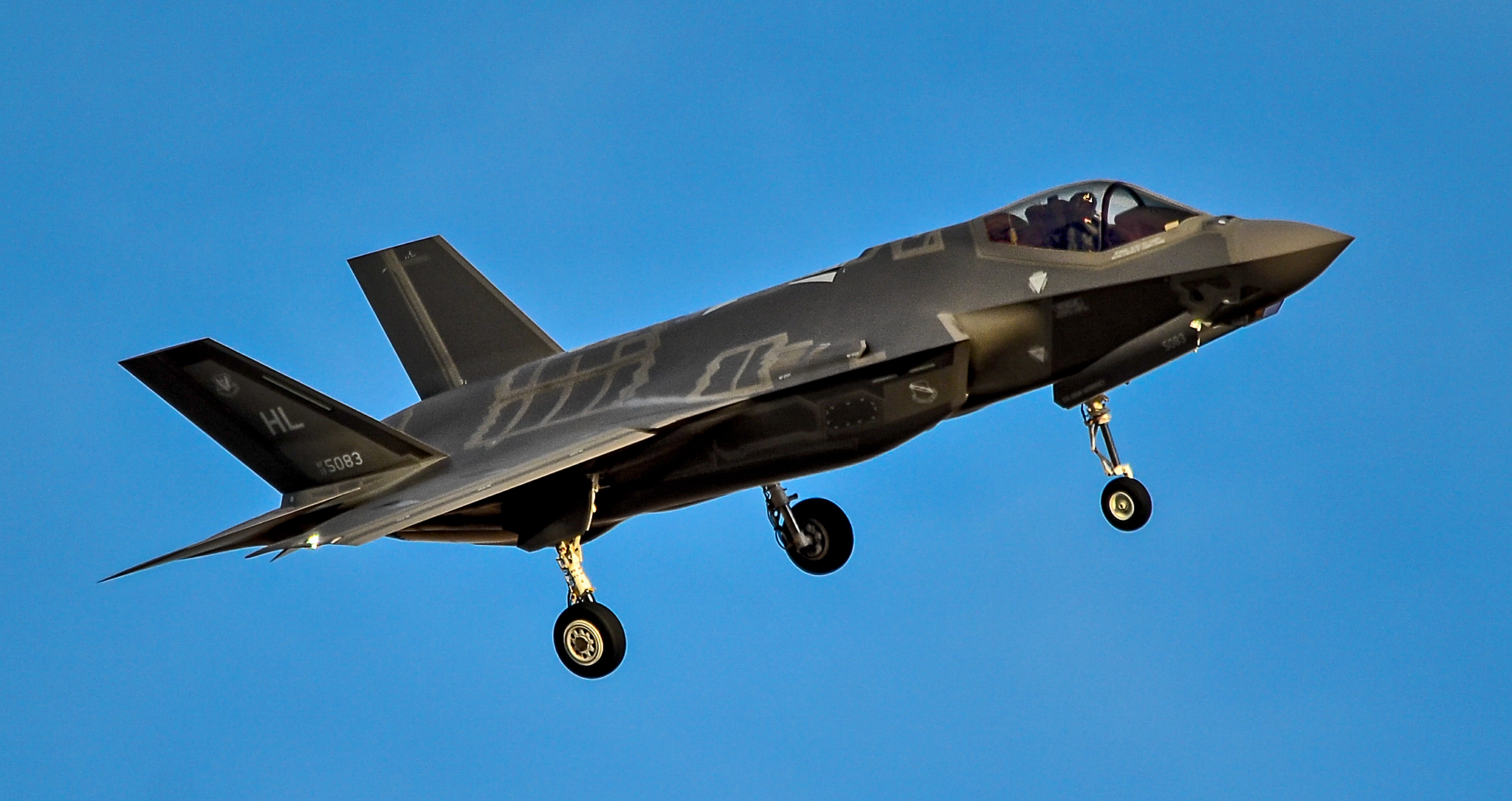 Red Flag 17-1: Jan. 23 to Feb. 10, 2017 Las Vegas - Nellis AFB (LSV / KLSV) USA - Nevada, February 8, 2017 Photo: TDelCoro